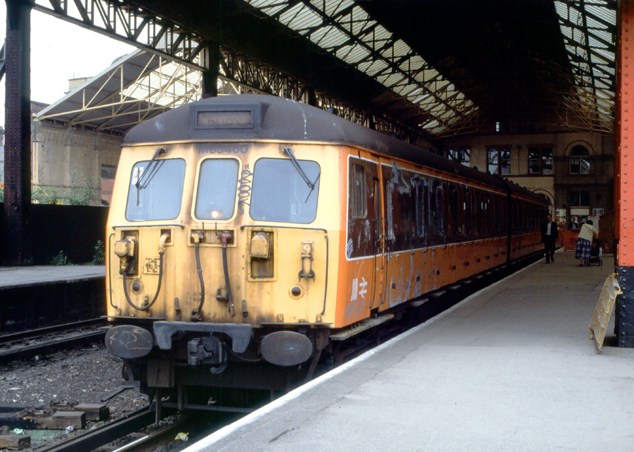 A Class 504 train at Manchester Victoria station just weeks before closure for conversion to the Metrolink light rail system.